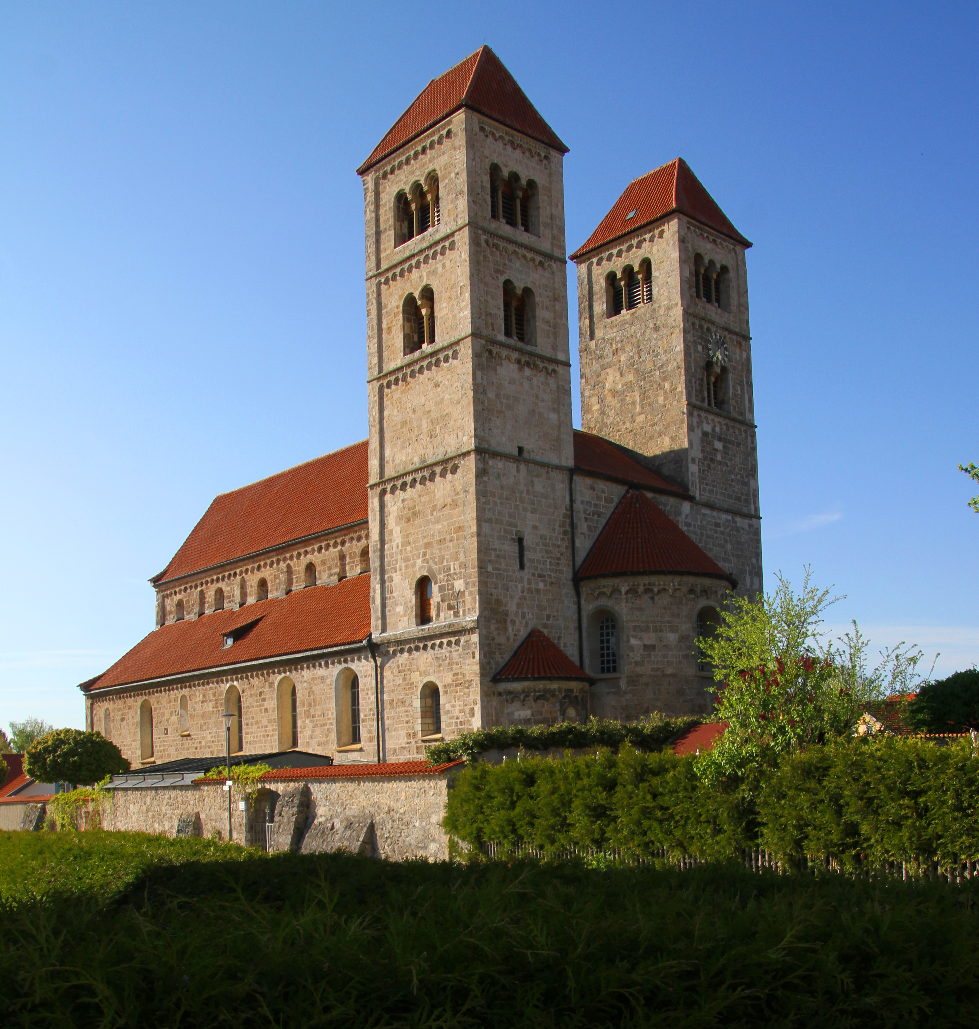 Church of St. Michael in Altenstadt near Schongau